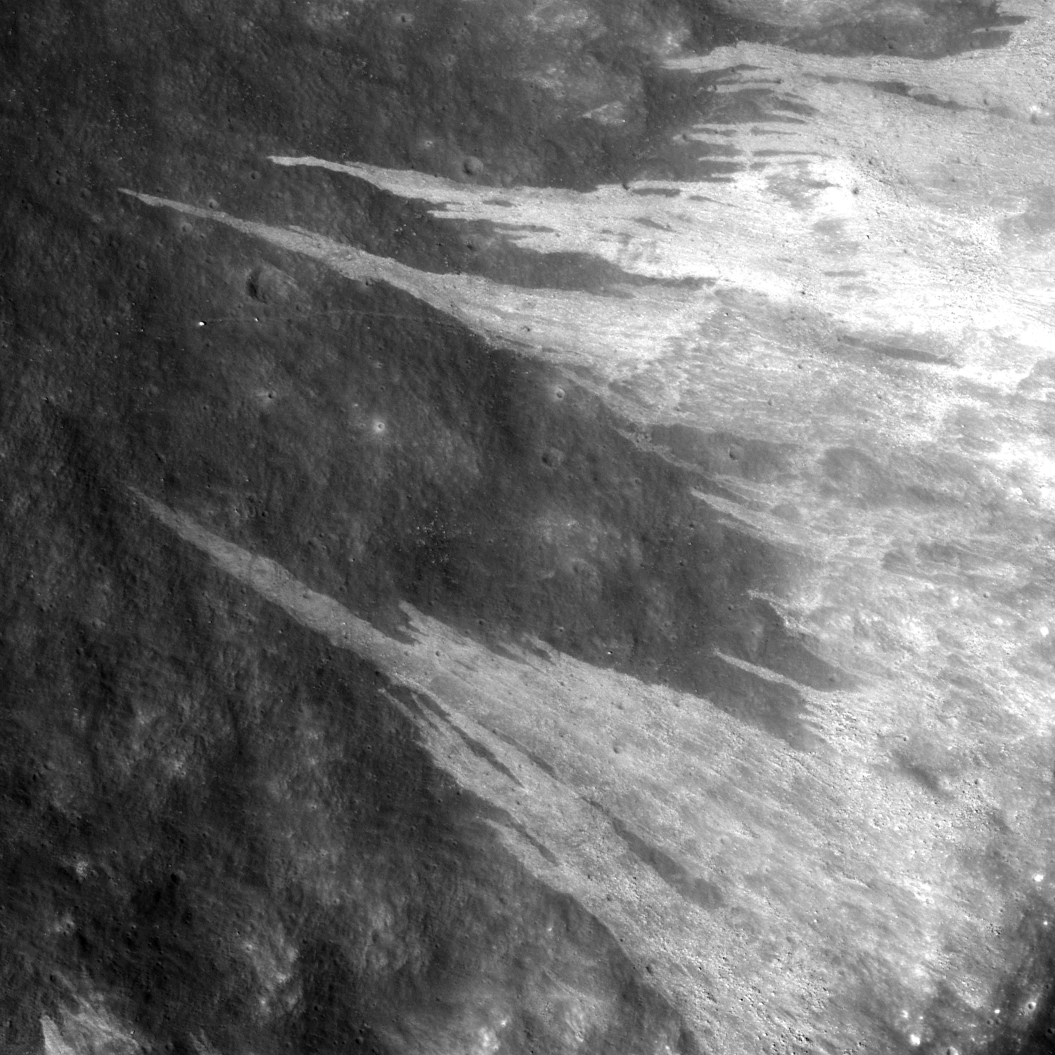 Granular debris flows along the interior wall of Clerke crater. The crater floor is toward the upper left of the image. LROC NAC M183332397R, image width is ~2 km [NASA/GSFC/Arizona State University].